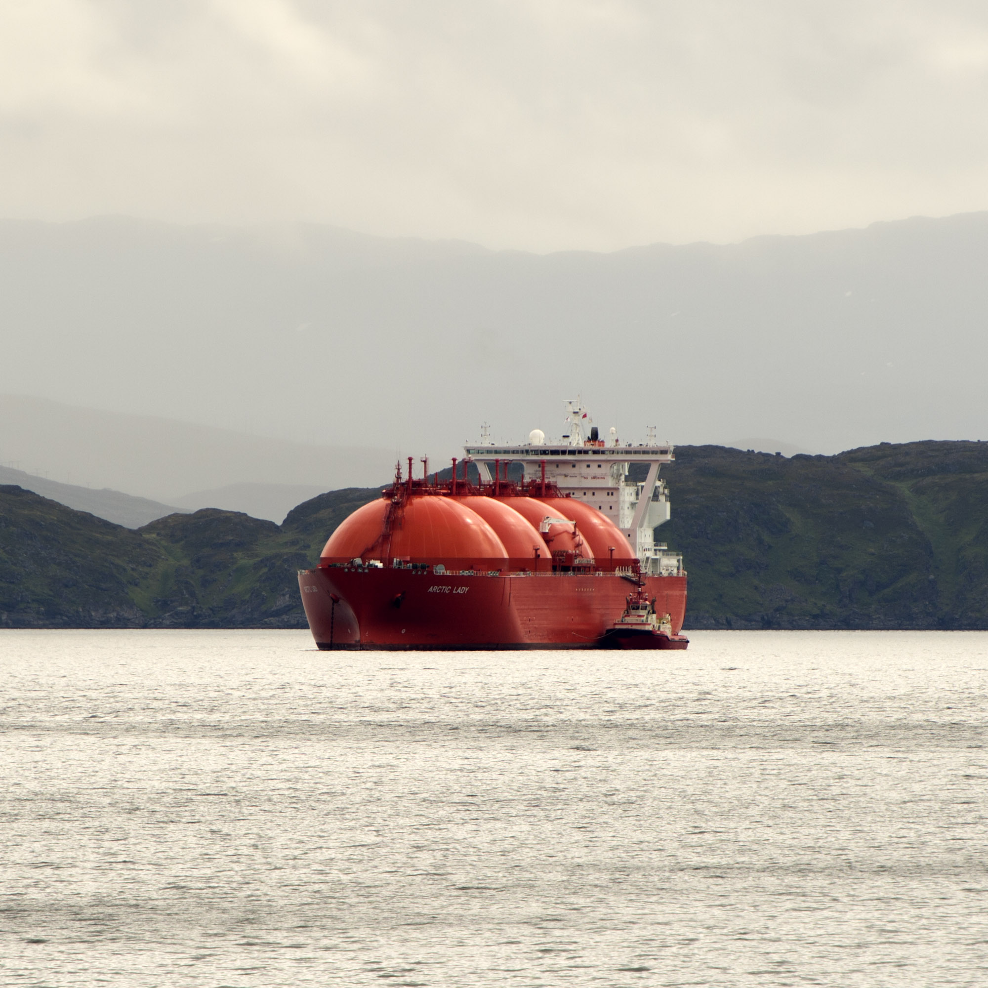 Tanker for liquified gas transportation in a Norwegian fjord